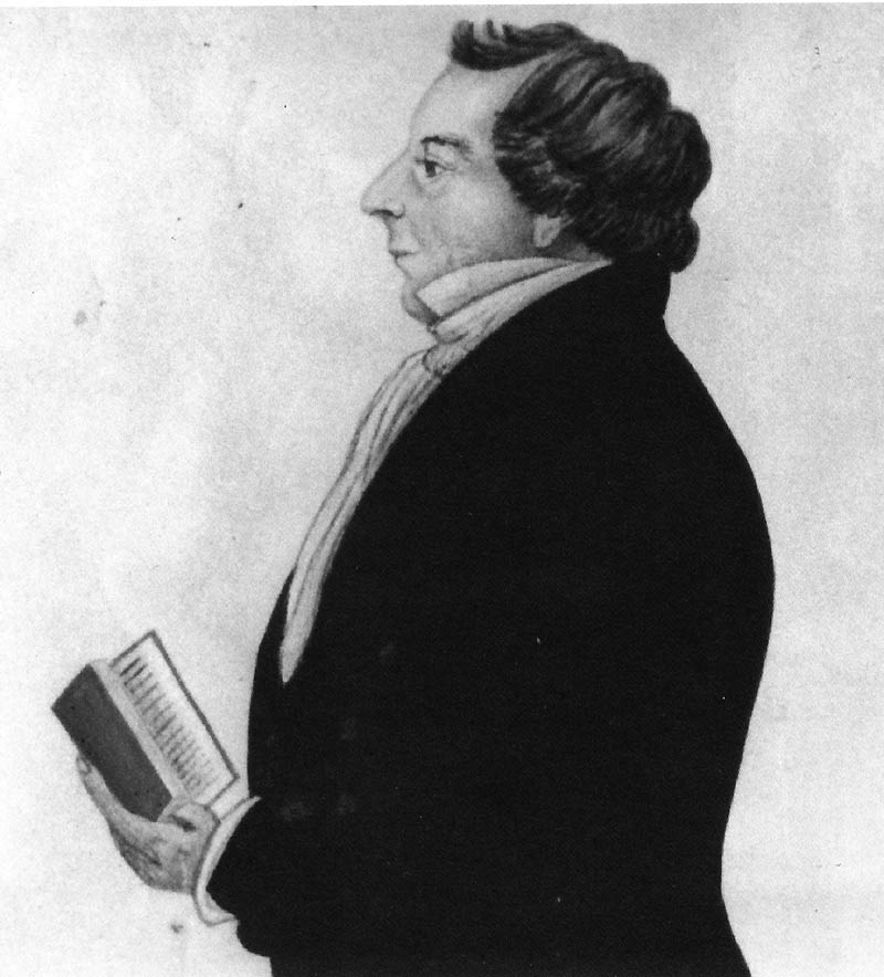 Joseph Smith, Jr. by Bathsheba W. Smithpublic domain painting (origional author died 20 September 1910)